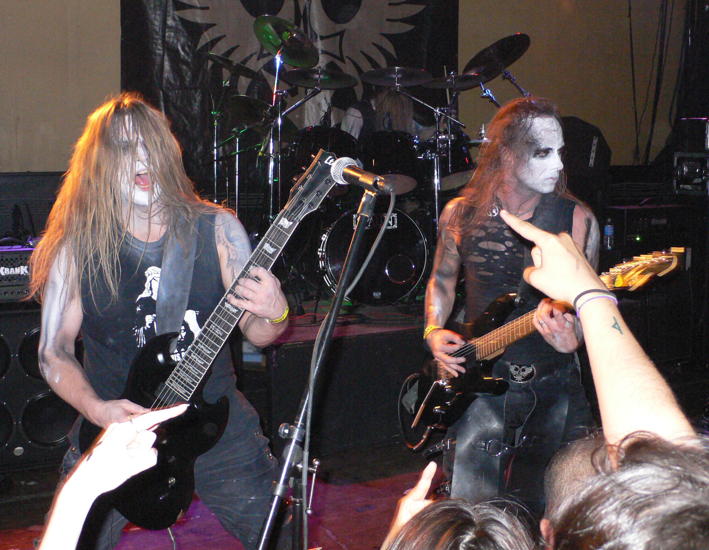 L to R: Seth, Inferno and Nergal of Behemoth. Taken at Jaxx on 30 April 2007.